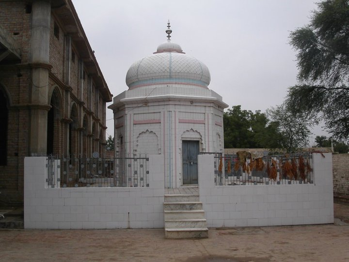 I (wikiuser:Shemaroo aka Shivender Singh)have uploaded this photo and created by Mr. Satvinder Rajpal.He has issued this photo for wikipedia under following license.In this photo you can see a samadh of Baba Karak Singh.Shemaroo (talk) 06:38, 25 February 2012 (UTC)